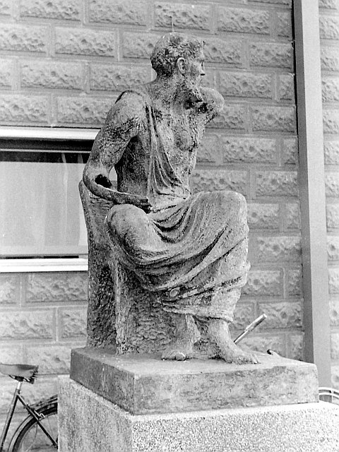 The Philosopher